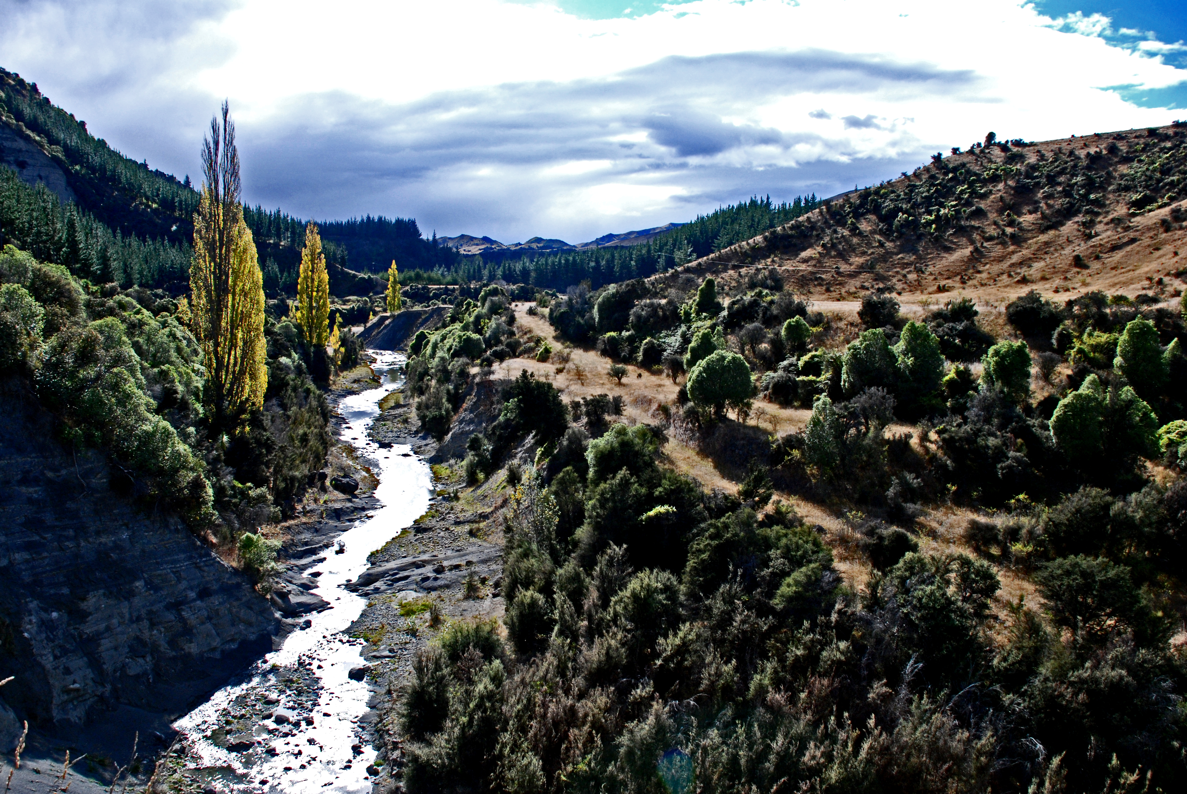 Medway River, Marlborough, New Zealand, 13 April 2007